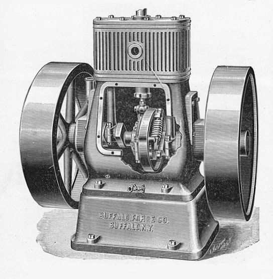 Buffalo steam engine (New Catechism of the Steam Engine, 1904).jpg